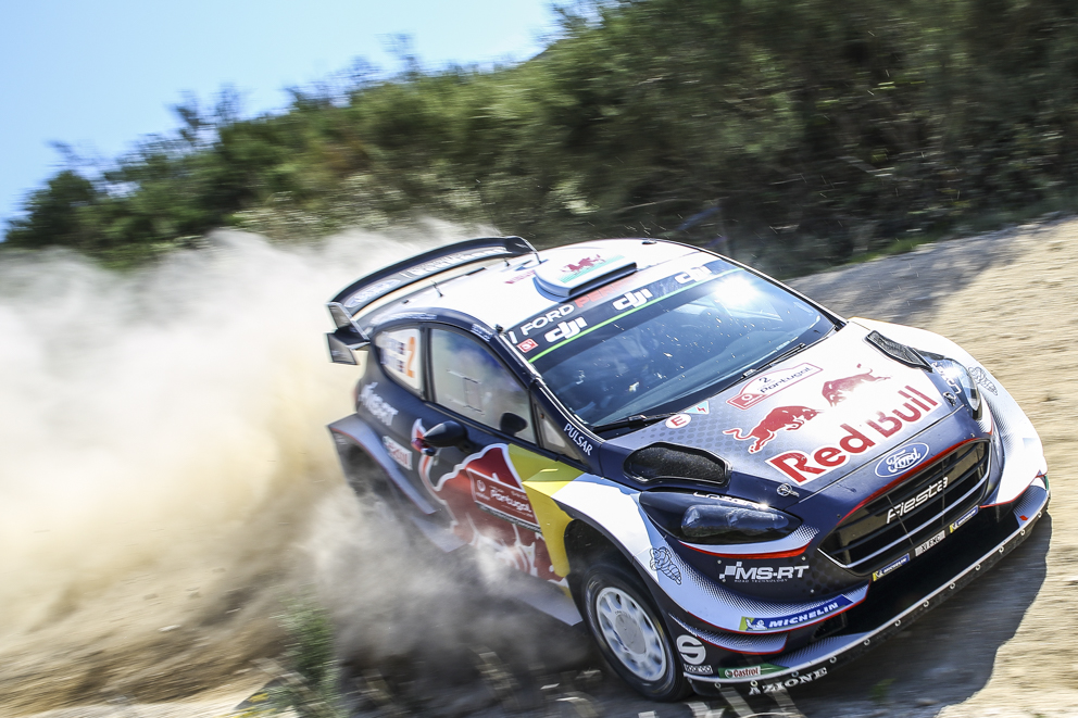 Stage of Cabeceiras de Basto